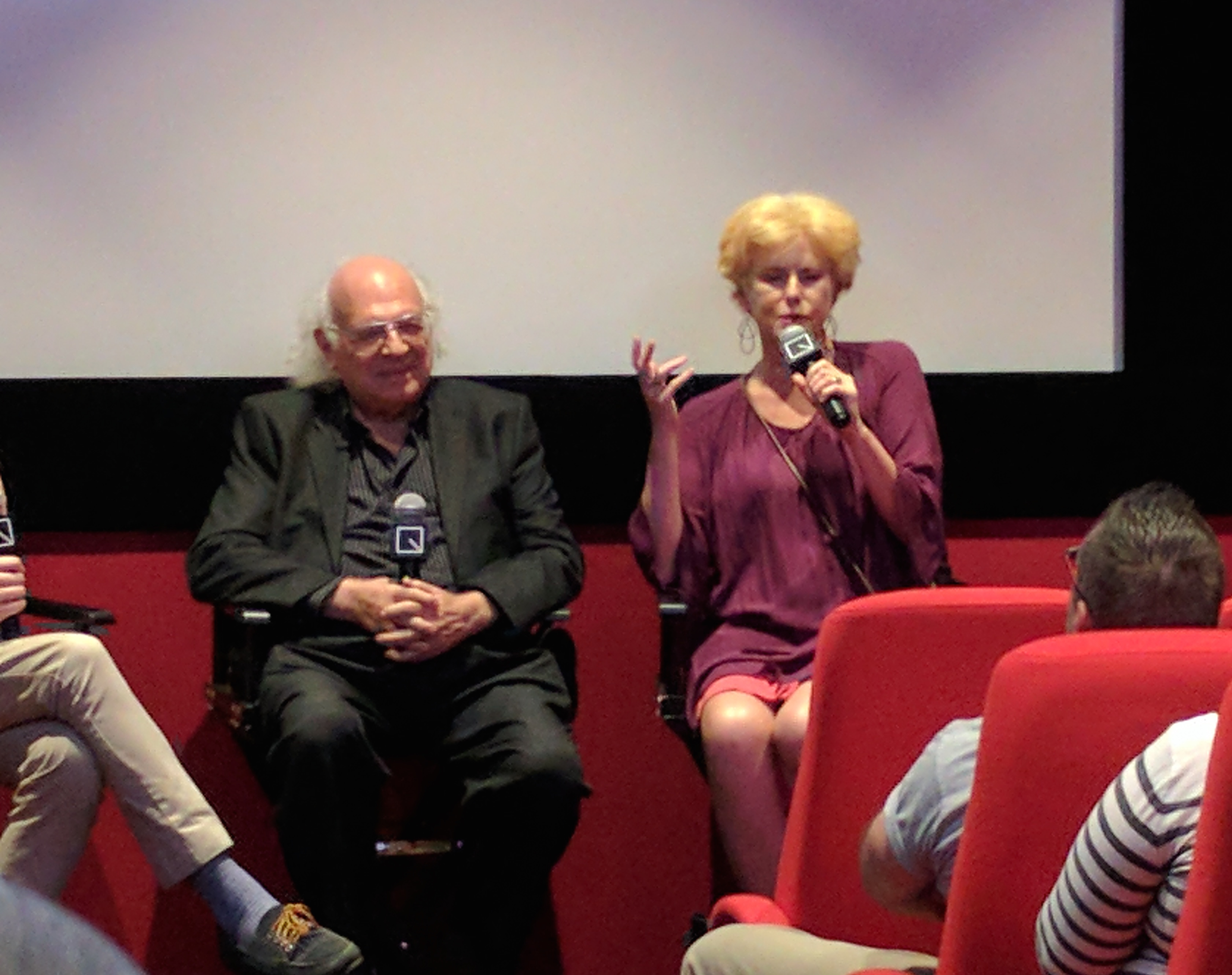 Director Slava Tsukerman and actor Anne Carlisle at a screening of Liquid Sky at the Quad Cinema, New York City, May 28, 2017